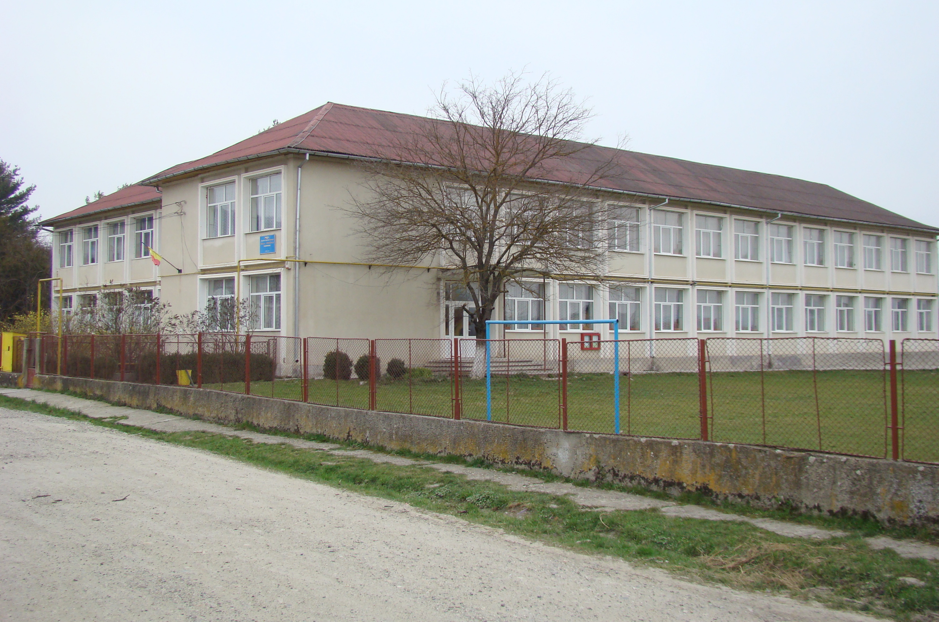 Cuzdrioara, Cluj county, Romania